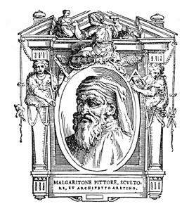 Illustratio from "Le Vite" by Giorgio Vasari, edition of 1568. For the artist portrayed see filename